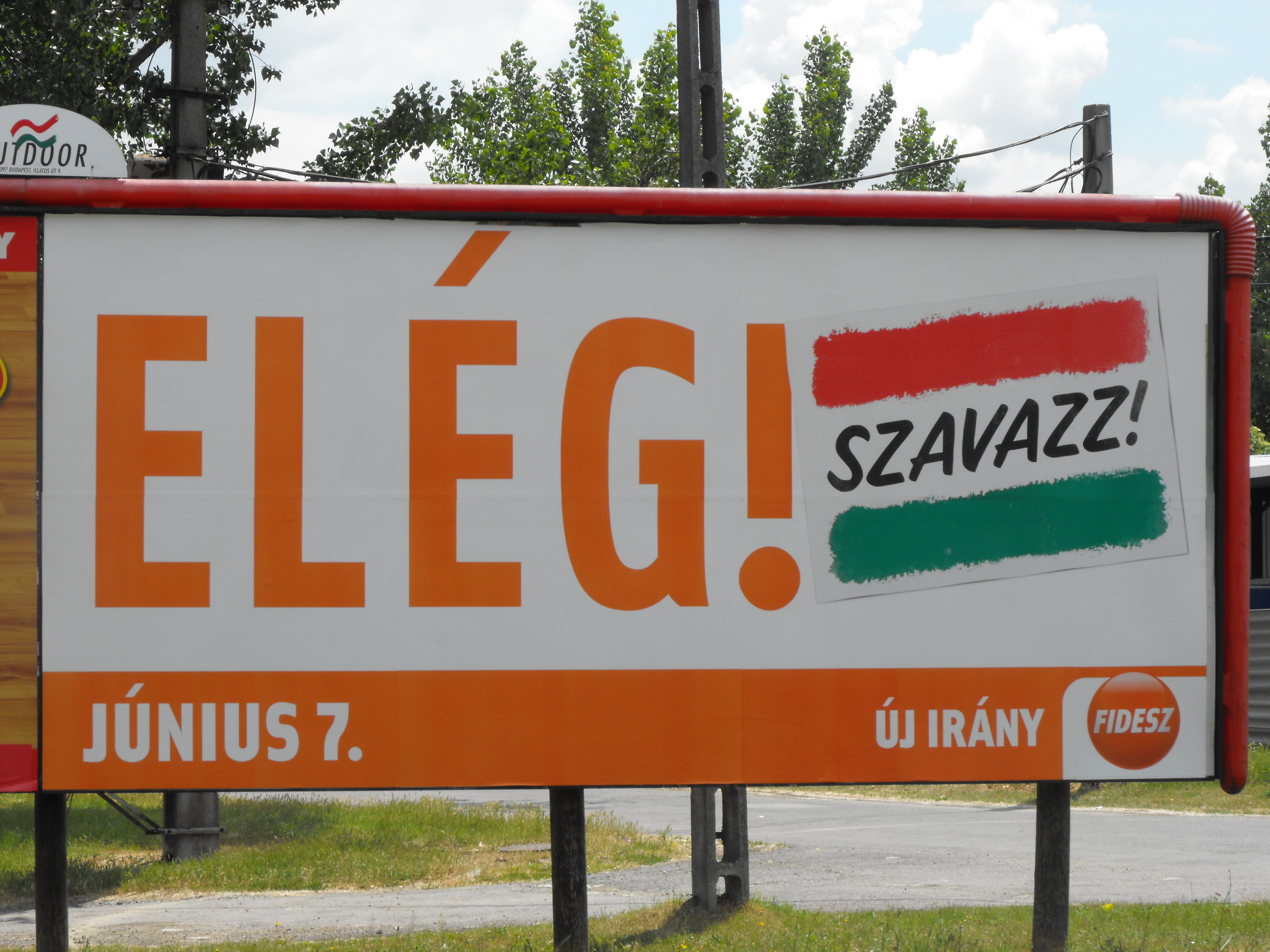 Fidesz poster for the 2009 European Parliament Election in Makó, Hungary.